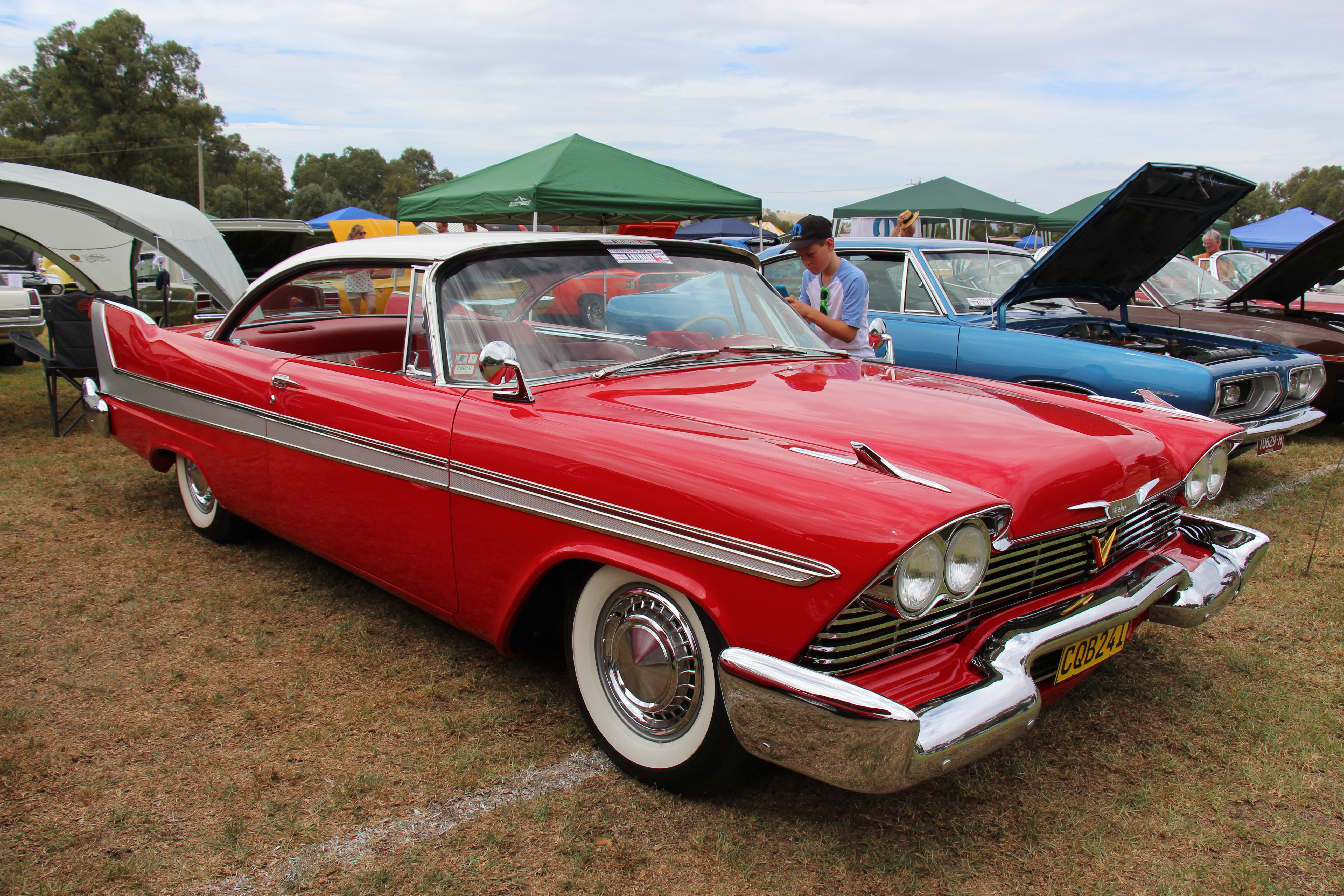 Belvederes were made from 1951-70, this the 3rd generation (1957-59) it was the top trim level and was available in 2 and 4 door sedan , 2 and 4 door hardtop, convertible and wagon. Base model was the Plaza, mid the Savoy. From 1956-58 the Fury was a sub series of the Belvedere, they were beige in 1958 with a gold anodised side stripe. Top engine was; 350 cu in Golden Commando V8 with dual 4 bbl carbys. Also 230 cu in 6, 241, 260, 273, 318 and 340 V8s were available Similar to the car that starred in the movie Christine, they say the car in the movie was a Plymouth Fury, but in 1958 the Furys were only eggshell white with gold trim, whereas Christine was like this car the red and white Belvedere